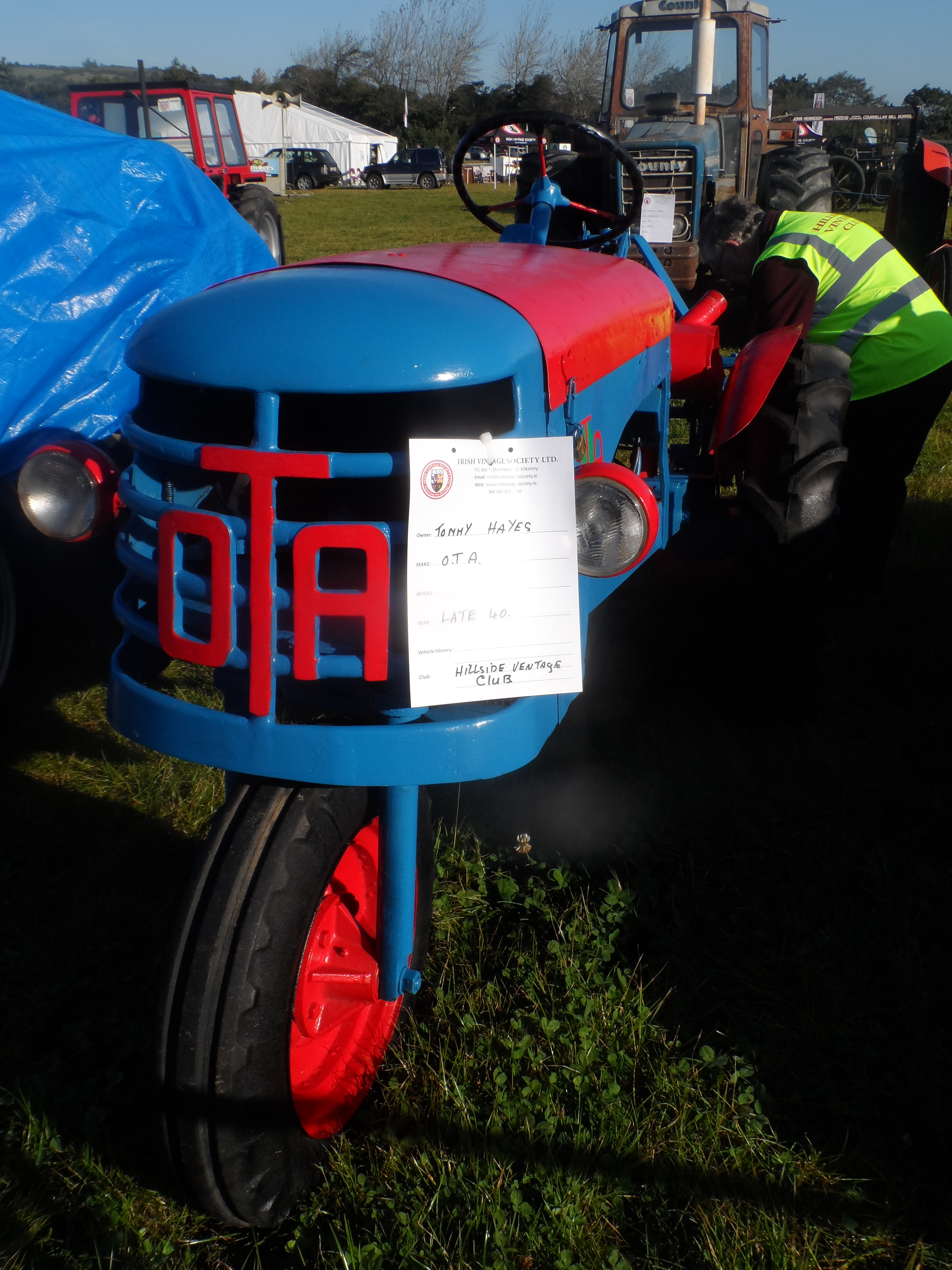 DTA tractor